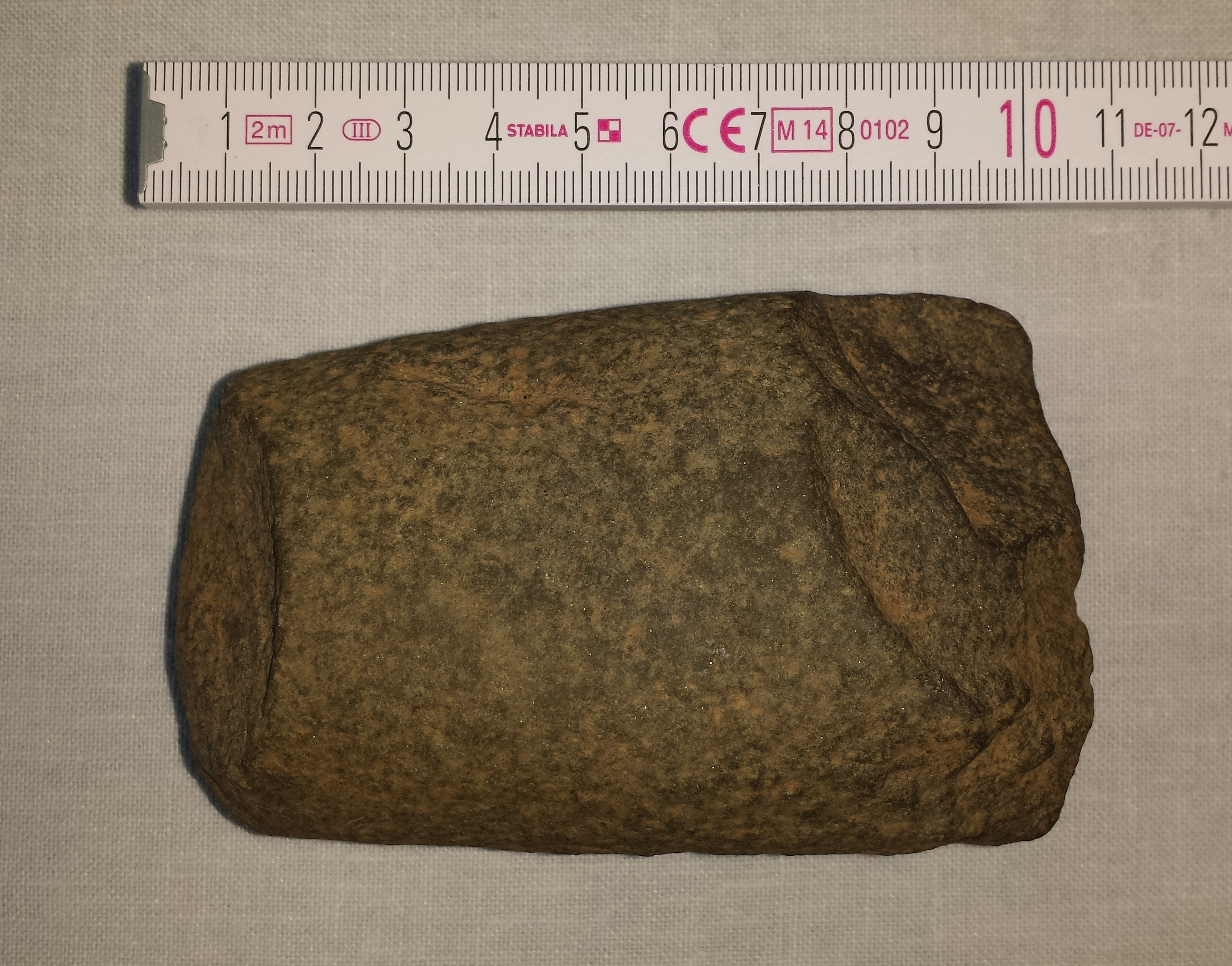 Neolitithic stone axe found in Cond